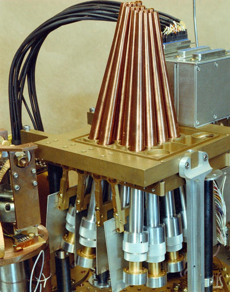 credit to "The MAXIMA Collaboration" according to the website you're free to copy the image but you've to credit